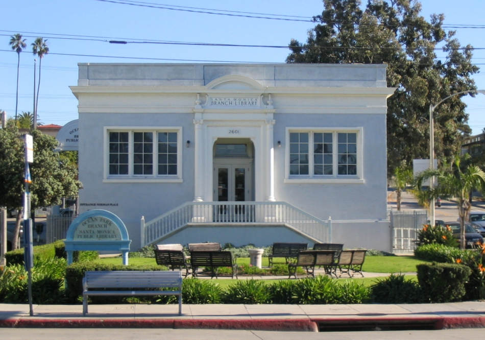 Santa Monica Public Library, Ocean Park Branch. This was built a a Carnegie Library.